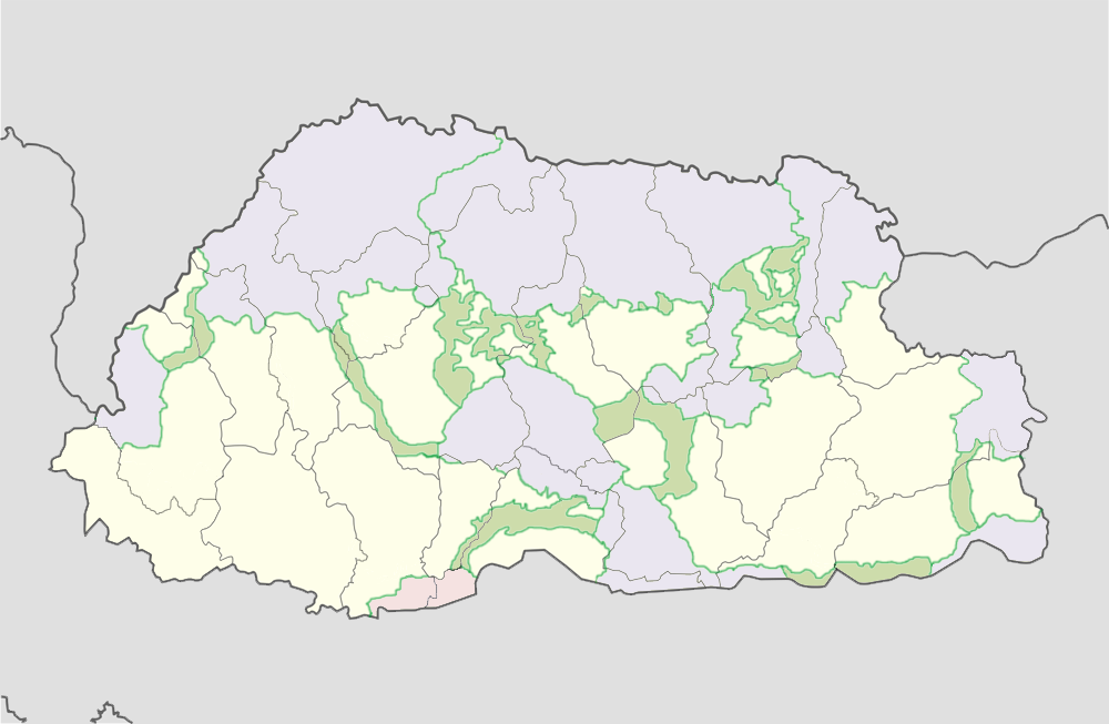 Phibsoo protected area location map